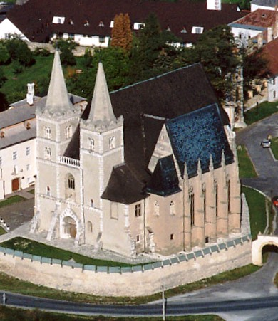 St. Martin in Spišské Podhradie, cathedral of the roman-catholic diocese Spiš. Description of the original image: This medium shows the protected monument with the number 704-782/0 in the Slovak Republic.